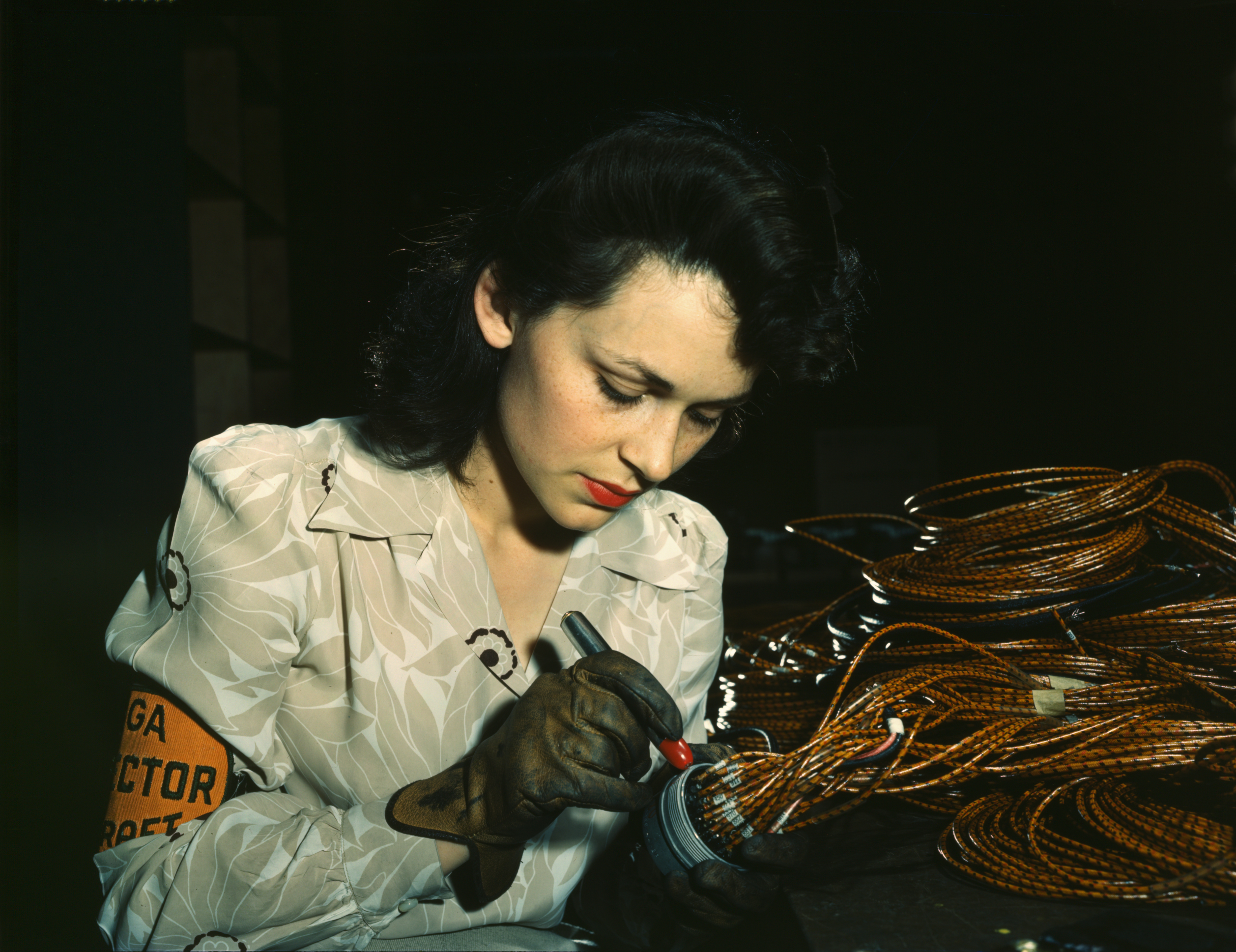 Woman aircraft worker, Vega Aircraft Corporation, Burbank, Calif.